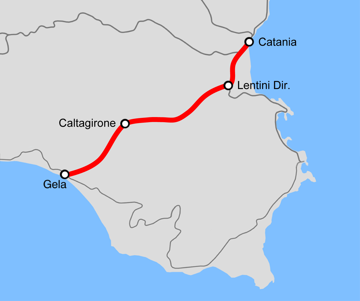 Catania-Gela Railway